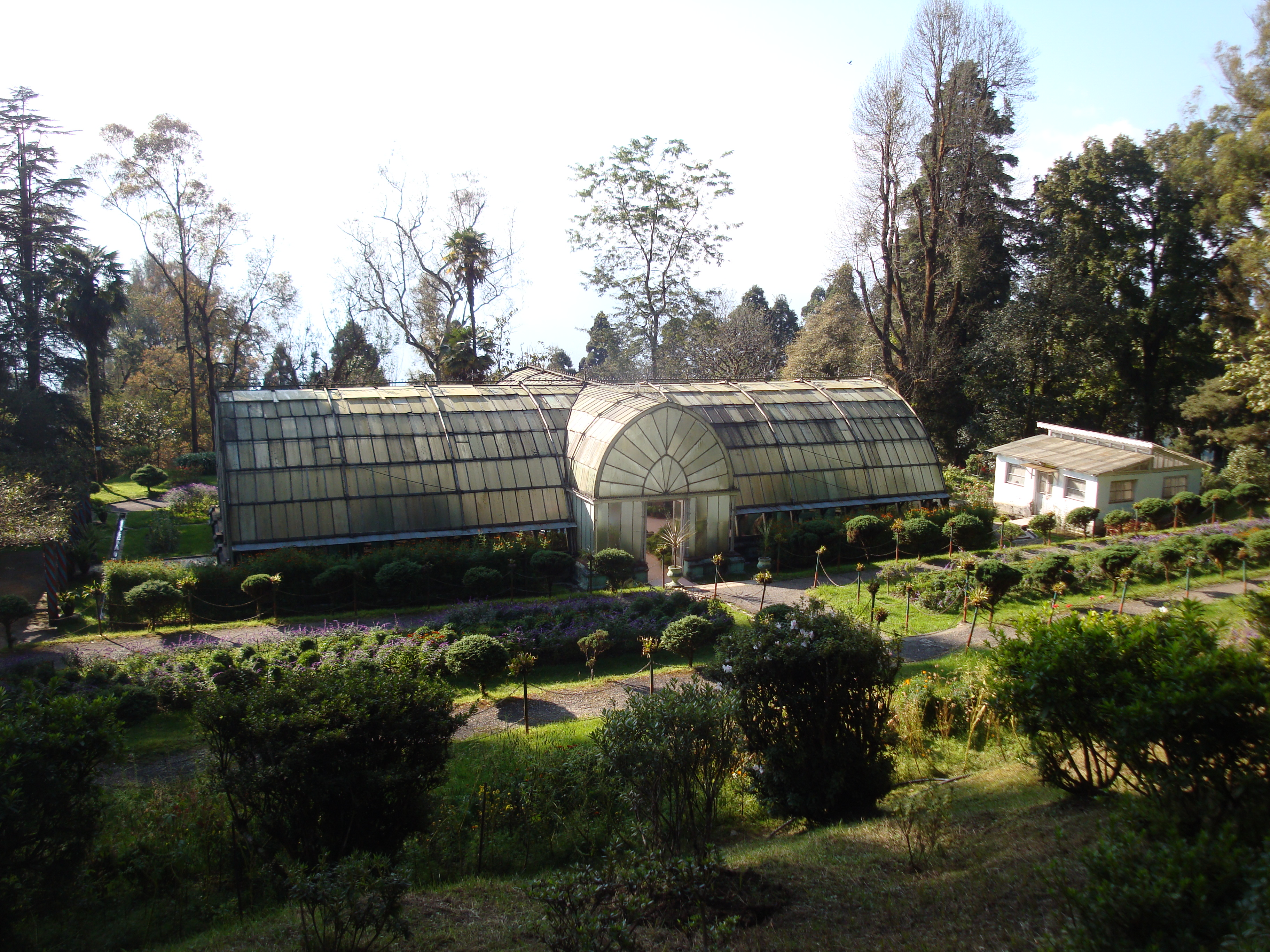 Lloyd's botanical garden, Darjeeling, India